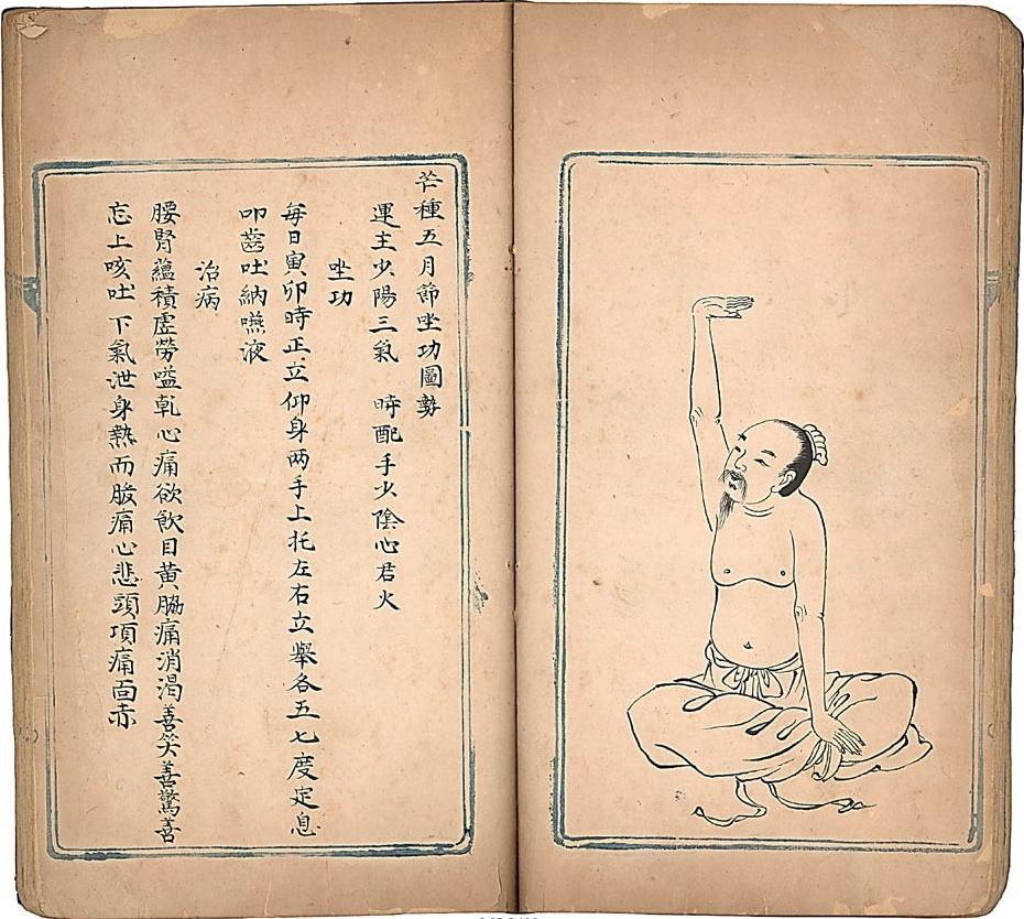 The Qing Dyansty printing of the Weisheng Jieyao, a manuscript of qigong. This illustrates one of the seated postures of Baduanjin (Eight Pieces of Brocade) Qigong